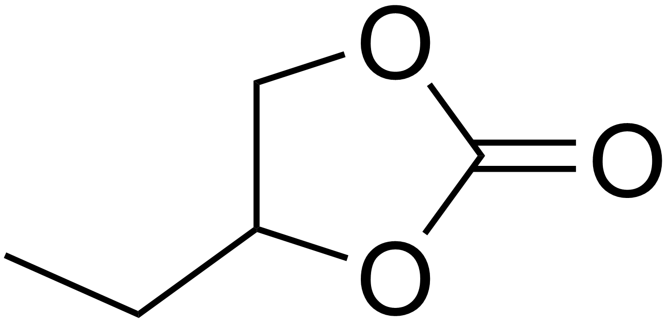 Chemical structure of 1,2-butylene carbonate